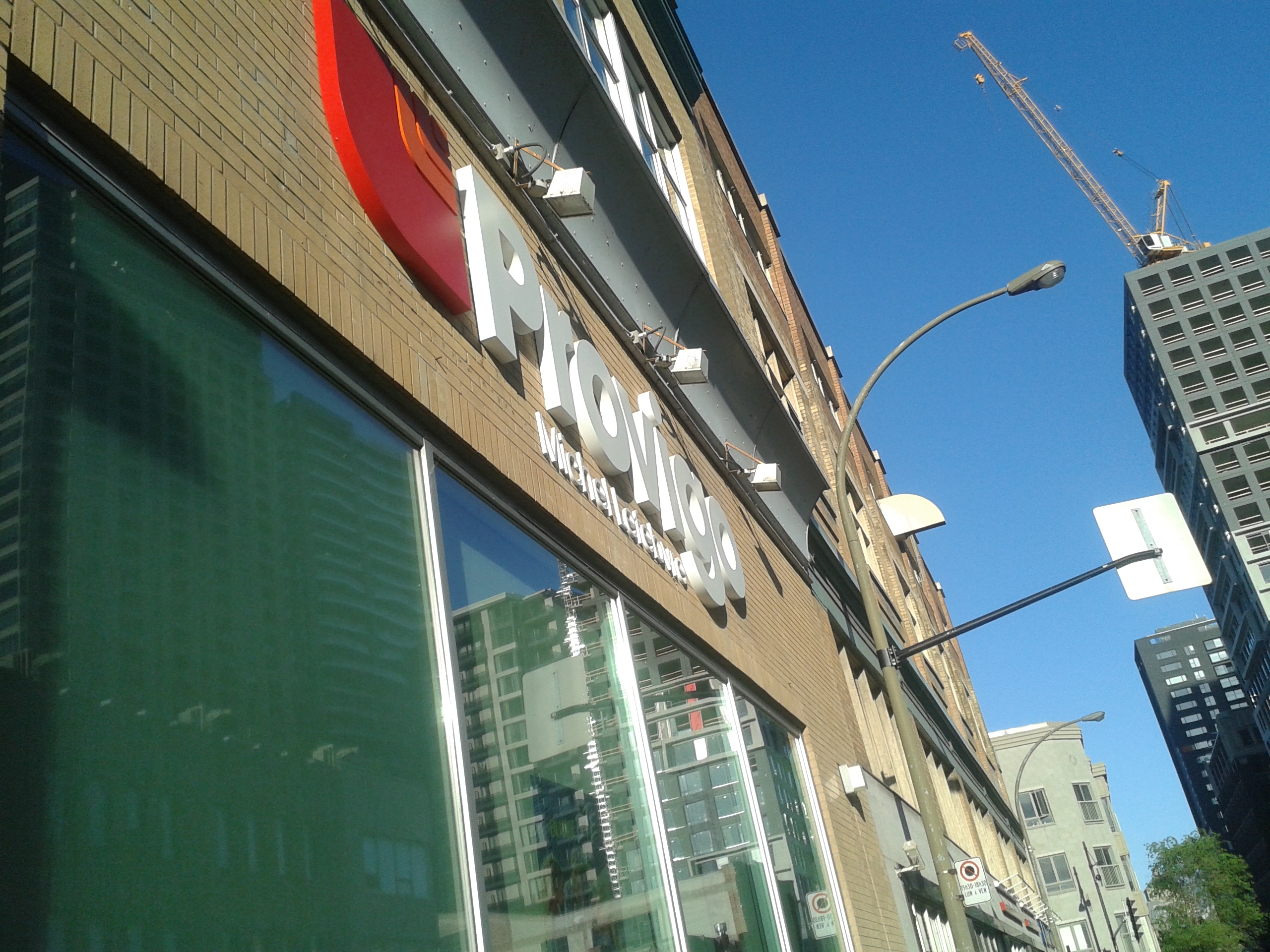 Provigo store with current logo on Parc Ave. corner Sherbrooke St. photographed in Montréal, Québec, Canada.